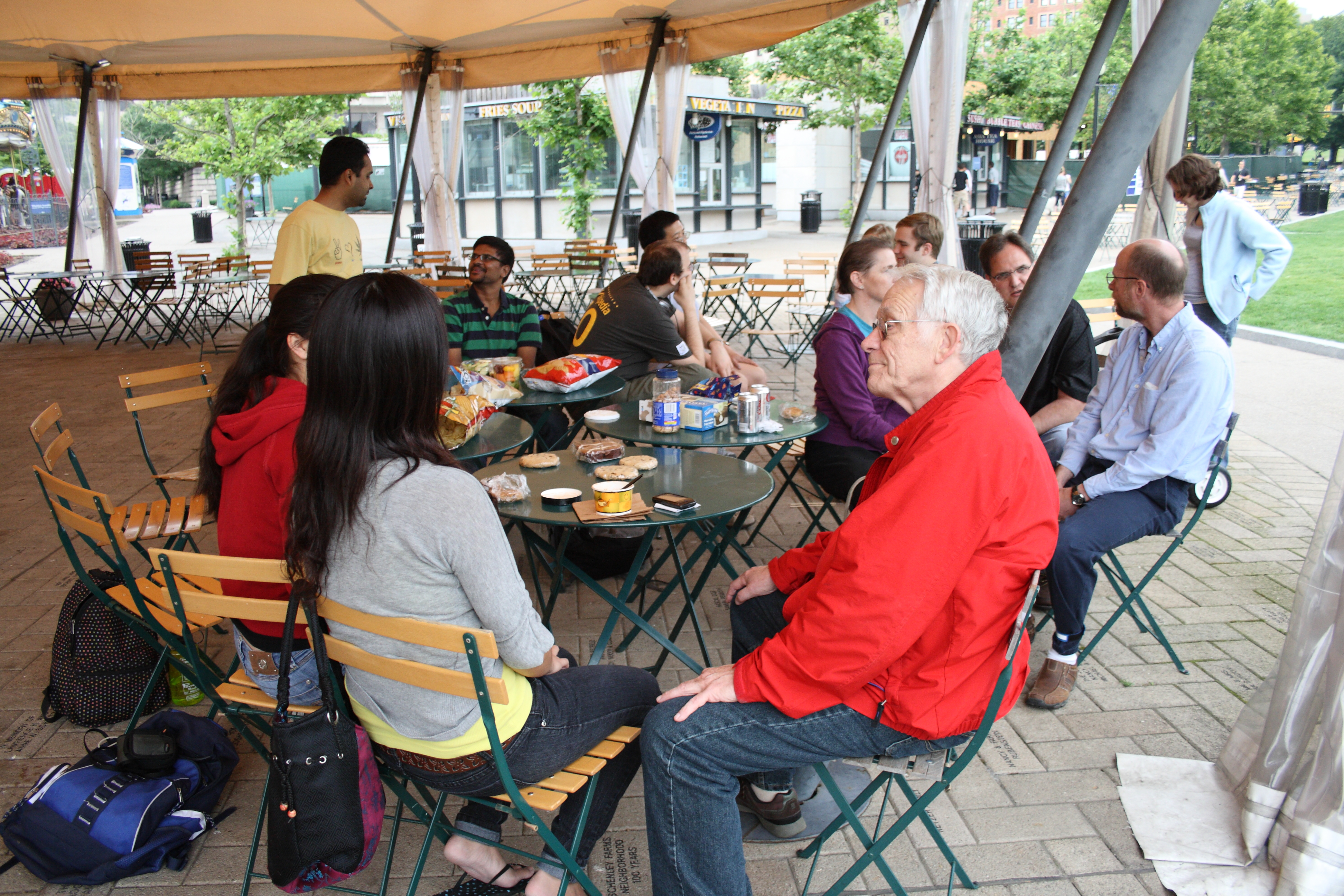 Attendee(s) of the Pittsburgh Wiknic 2011, at Schenley Plaza on June 25.